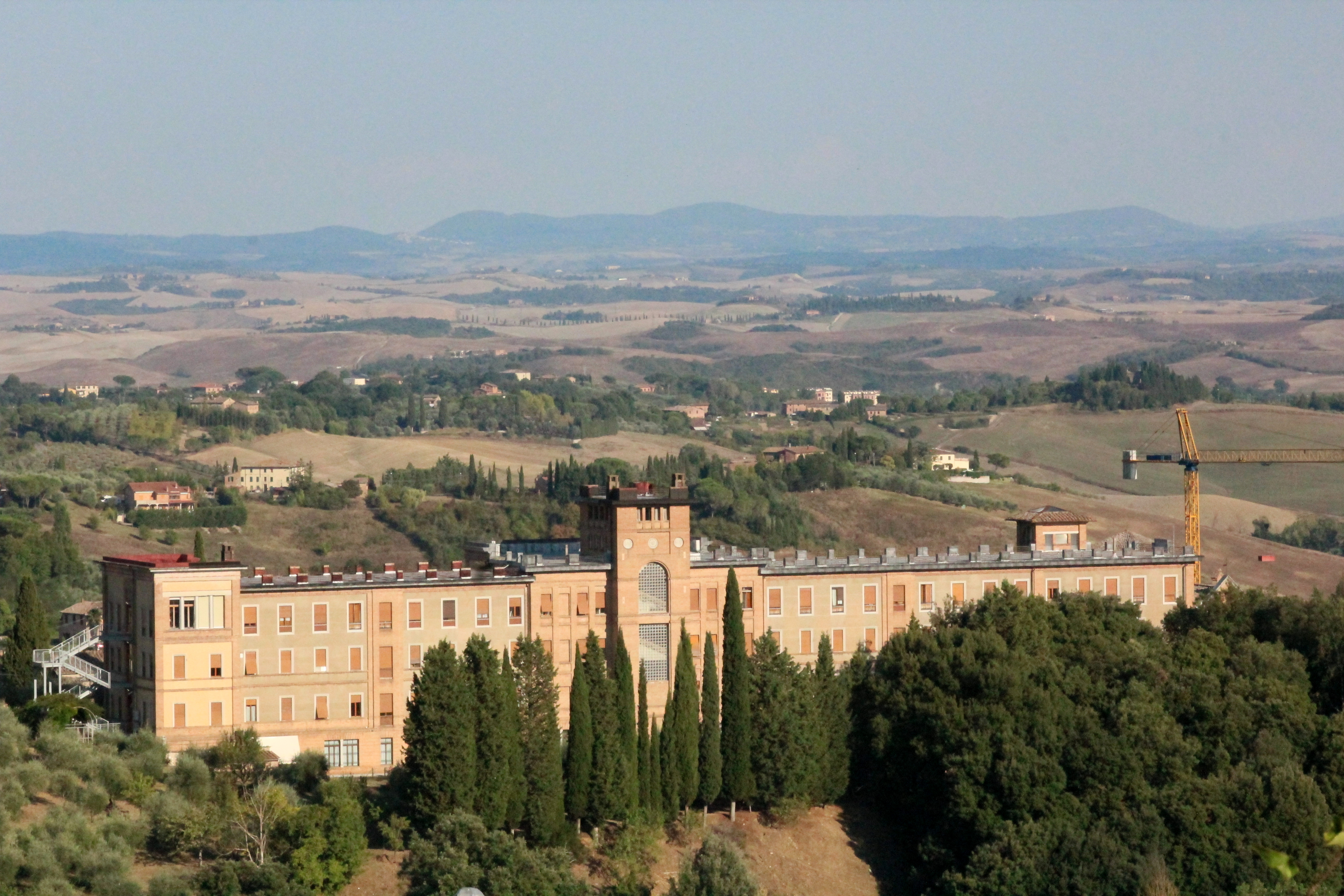 Villa Il Pavone, just outside Porta Romana, hamlet of Valli, Siena, Tuscany, Italy